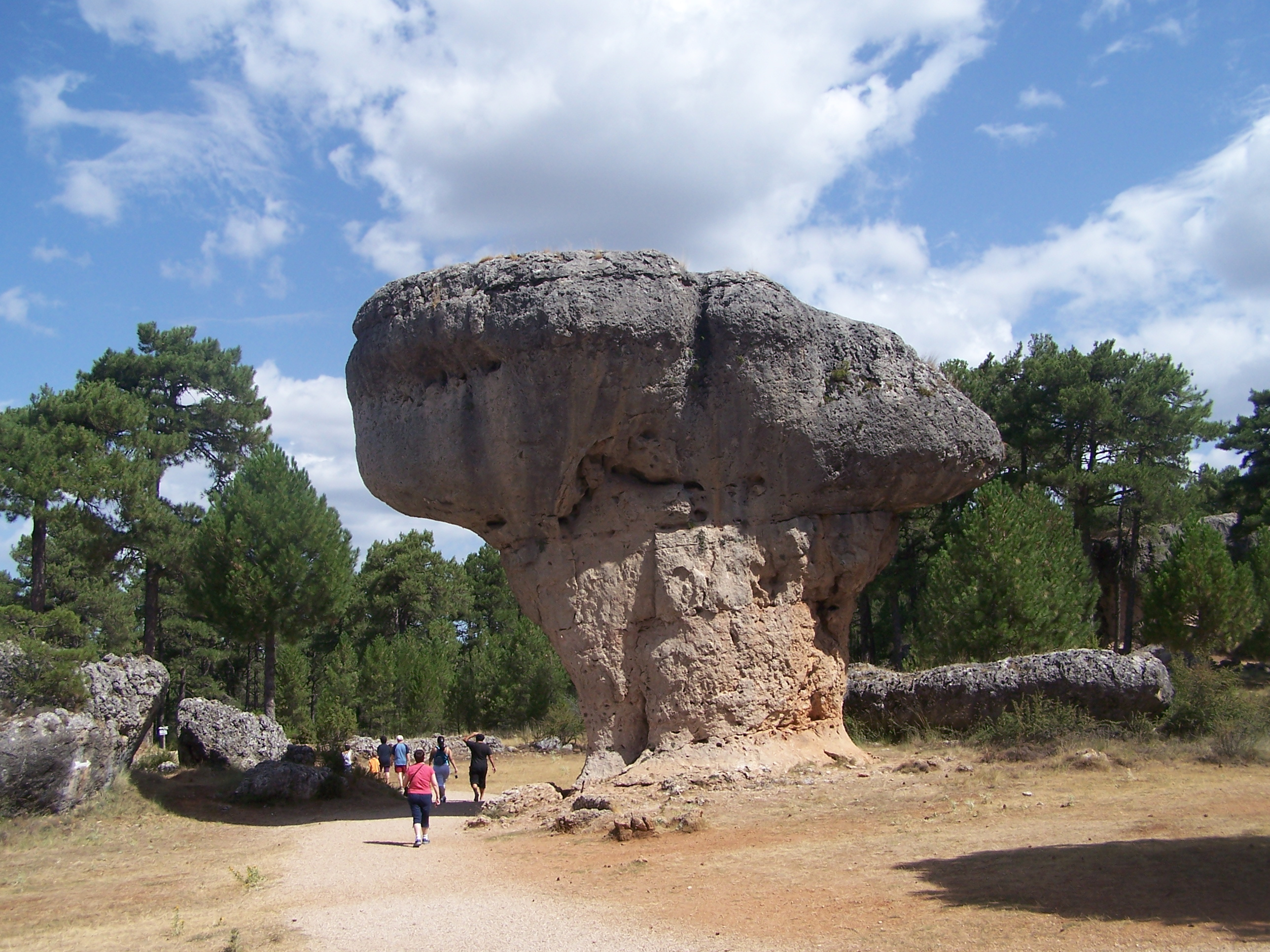 One of the rock formations in Ciudad Encantada